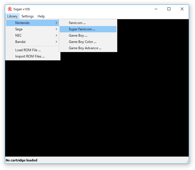 higan version 105 running on Windows 10